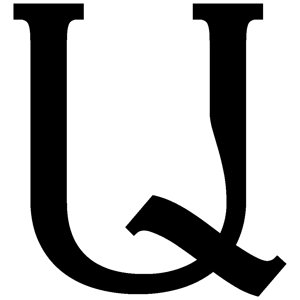 Armenian Letter Ayb